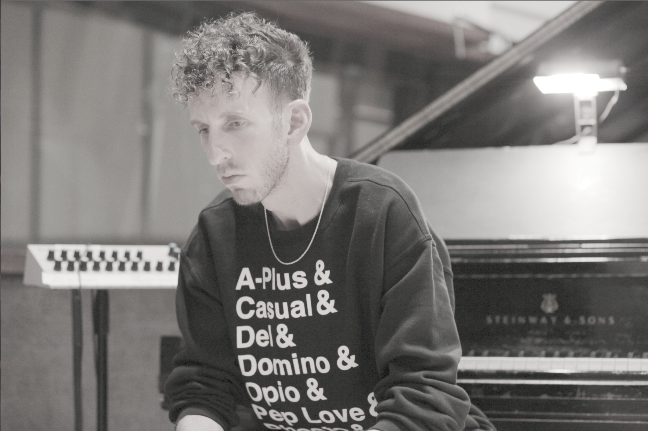 Picture of producer Ariel Rechtshaid at Vox Studios in Los Angeles, CA.